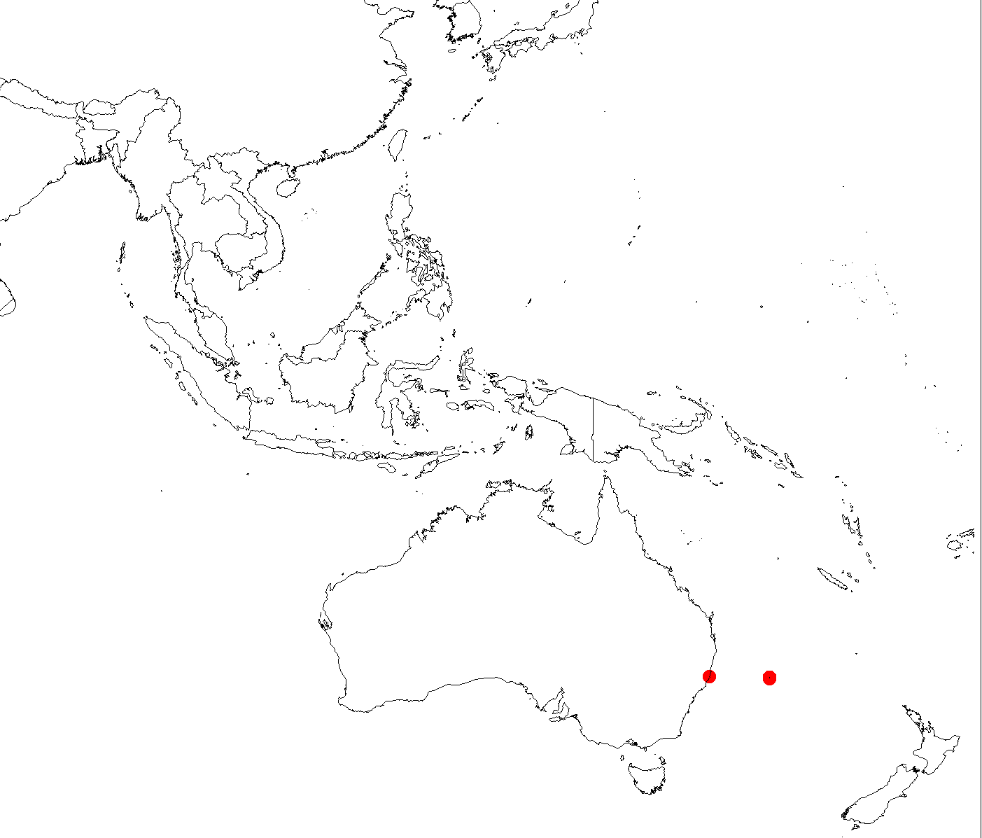 Parsonsia howeana Occurrence data downloaded from (21 December 2018) GBIF Occurrence Download